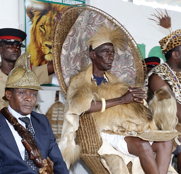 King Mpezeni Ngoni People